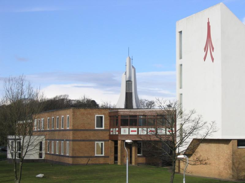 Lancaster University's Chaplaincy Centre